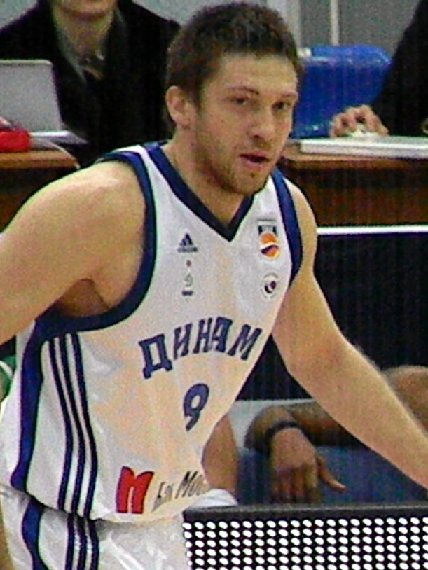 Evgeny Voronov, russian Basketball player, at all-star PBL game 2011